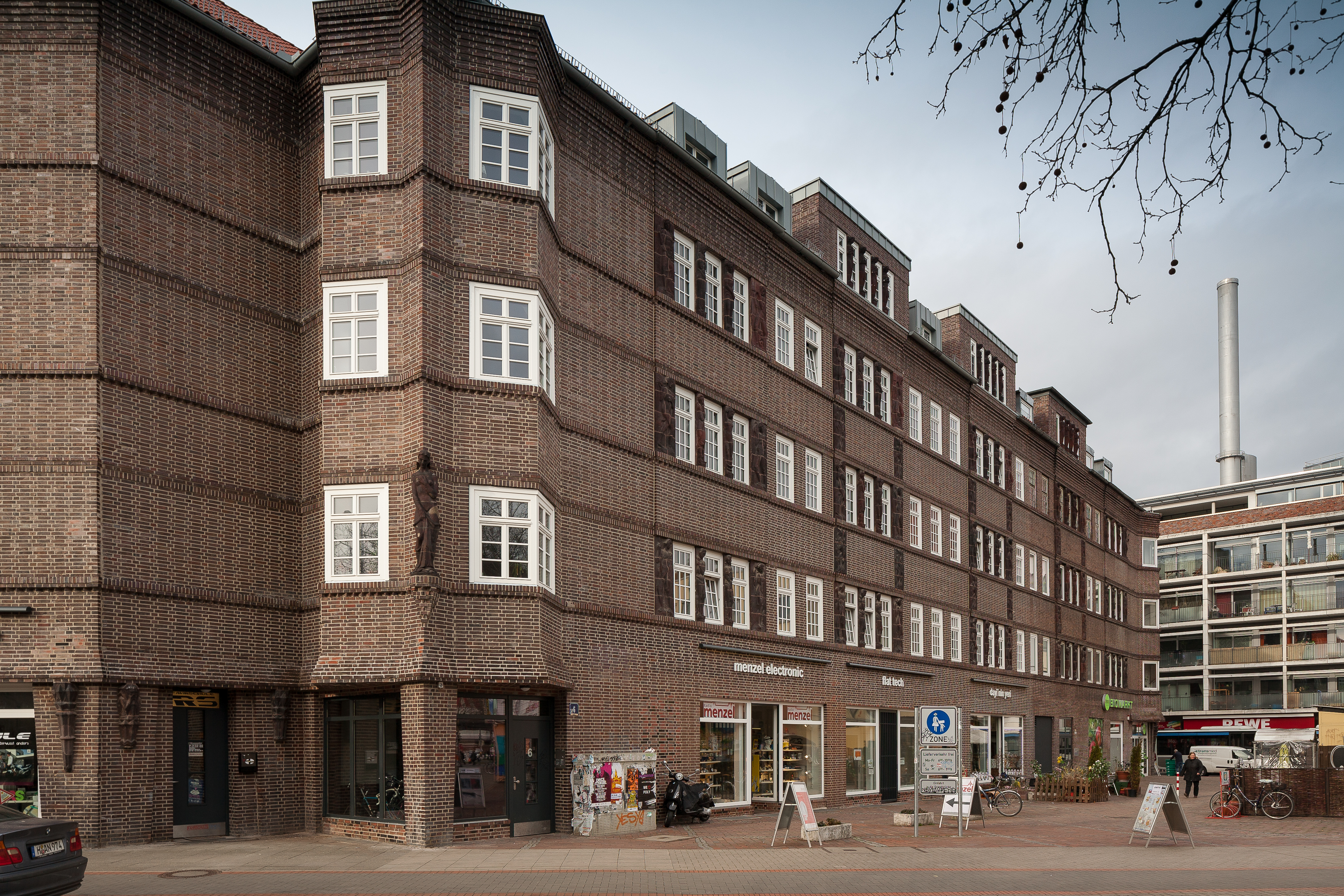 House intend for departments stores and apartments. The building is located between Limmerstrasse and Foessestrasse in Linden district, Hanover, Germany. Der Reichtum der vergleichsweise zierlichen Hauptfassade des Gebäudekomplex es erschließt sich erst bei näherer Betrachtung